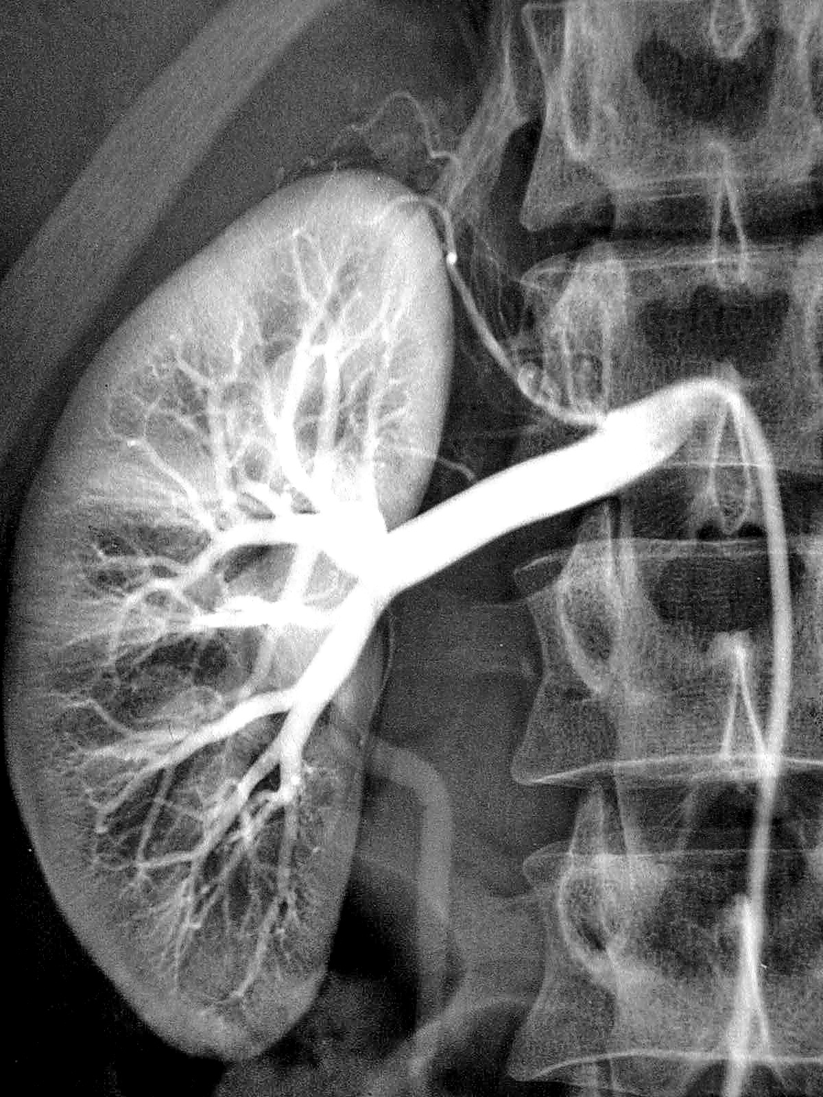 renal vascular imaging